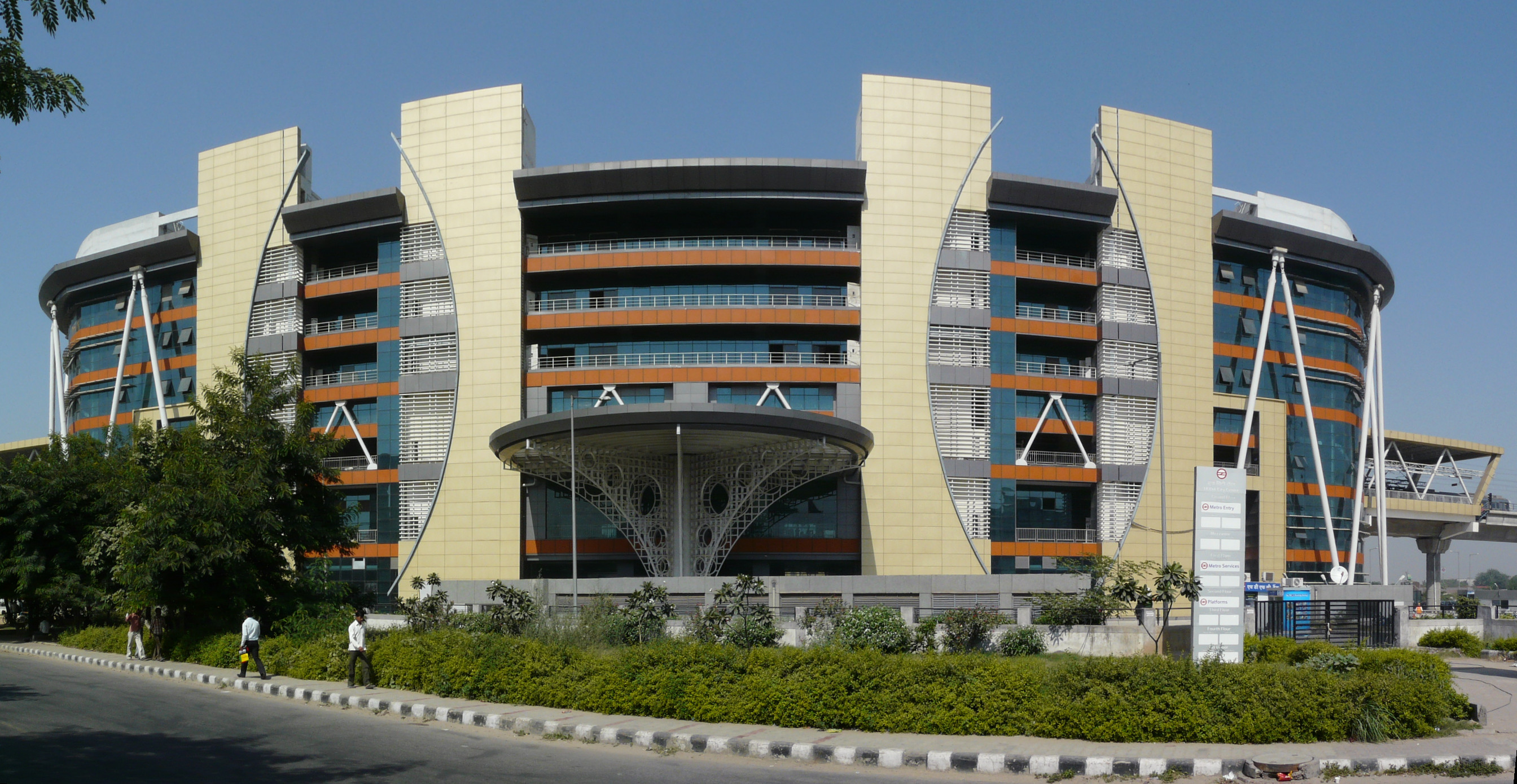 HUDA City Center station, the terminal station on the Yellow Line of Delhi Metro in Gurgaon, Haryana.